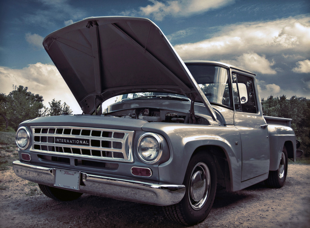 1963 or 1964 International Harvester C-900 pickup